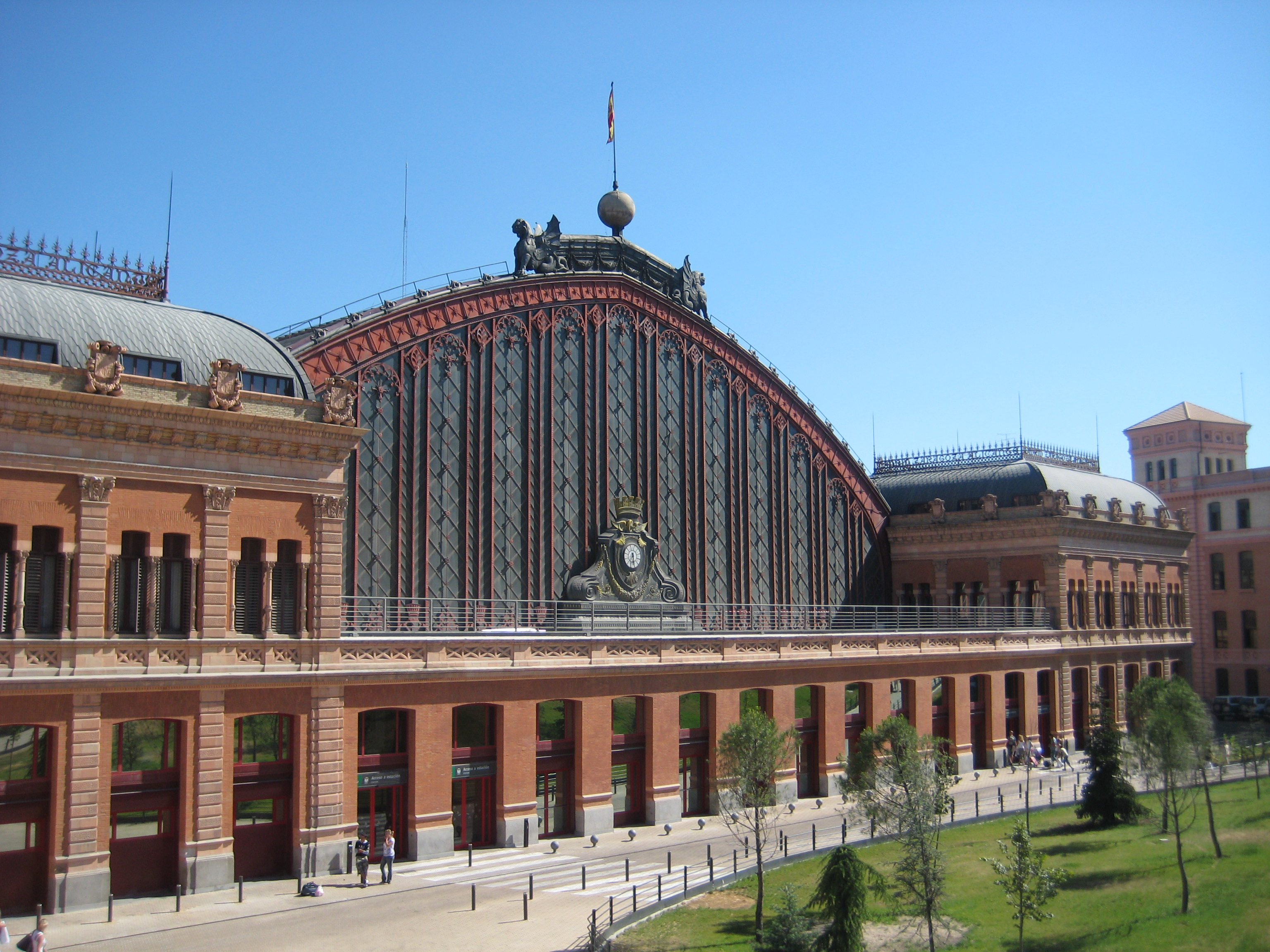 North-West façade of Atocha railway station in Madrid (Spain). Building was projected in 1888 by architect Alberto de Palacio y Elissague (1856–1936) and engineer Henry Saint James, and built from 1890 to 1892.